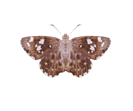 Celaenorrhinus ambareesa digital picture made by self (L. Shyamal)